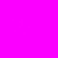 Magenta Colour